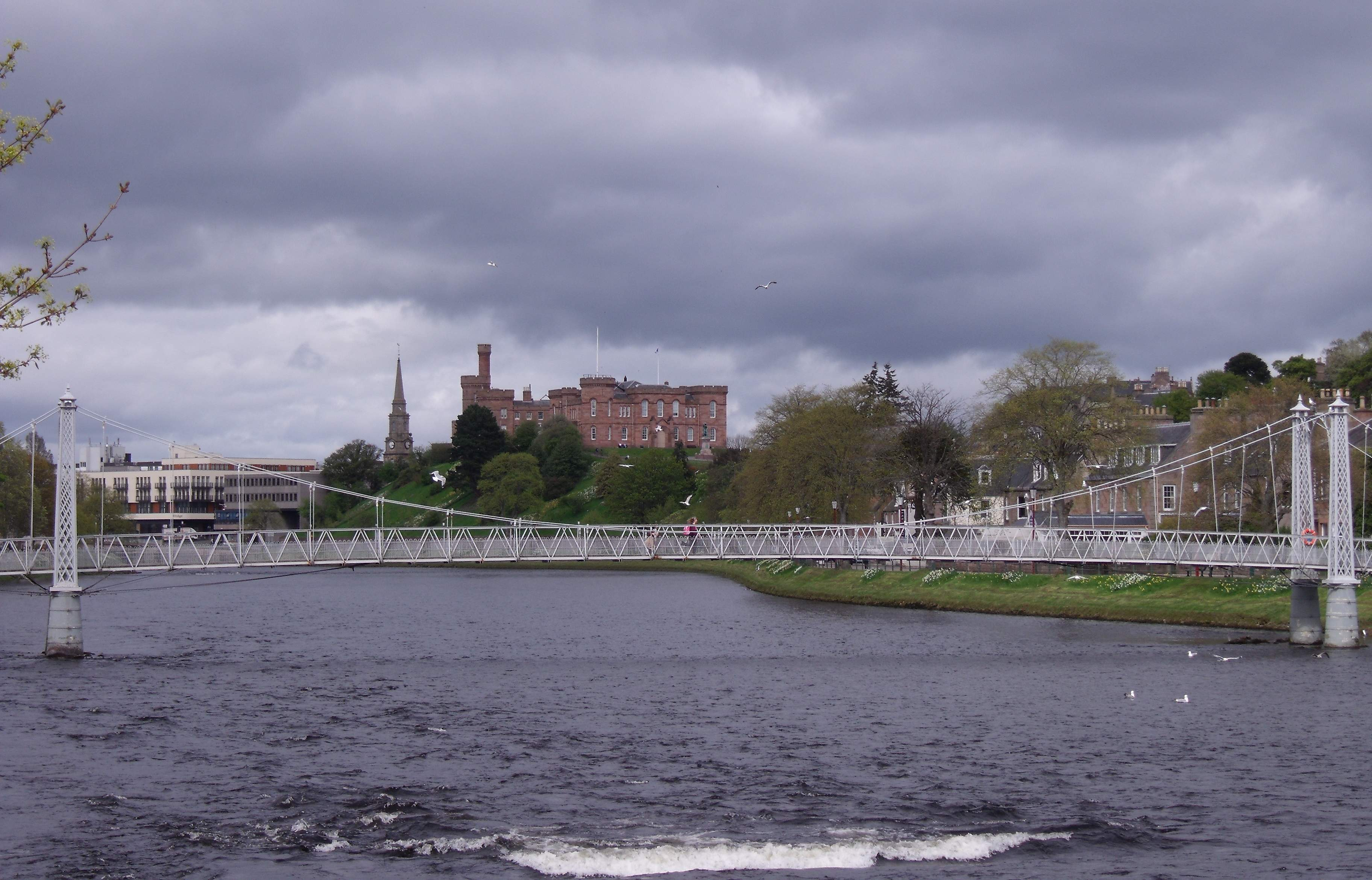 As ever, the old lady looks regally down over the City Best viewed Original size These pesky seagulls get everywhere!!